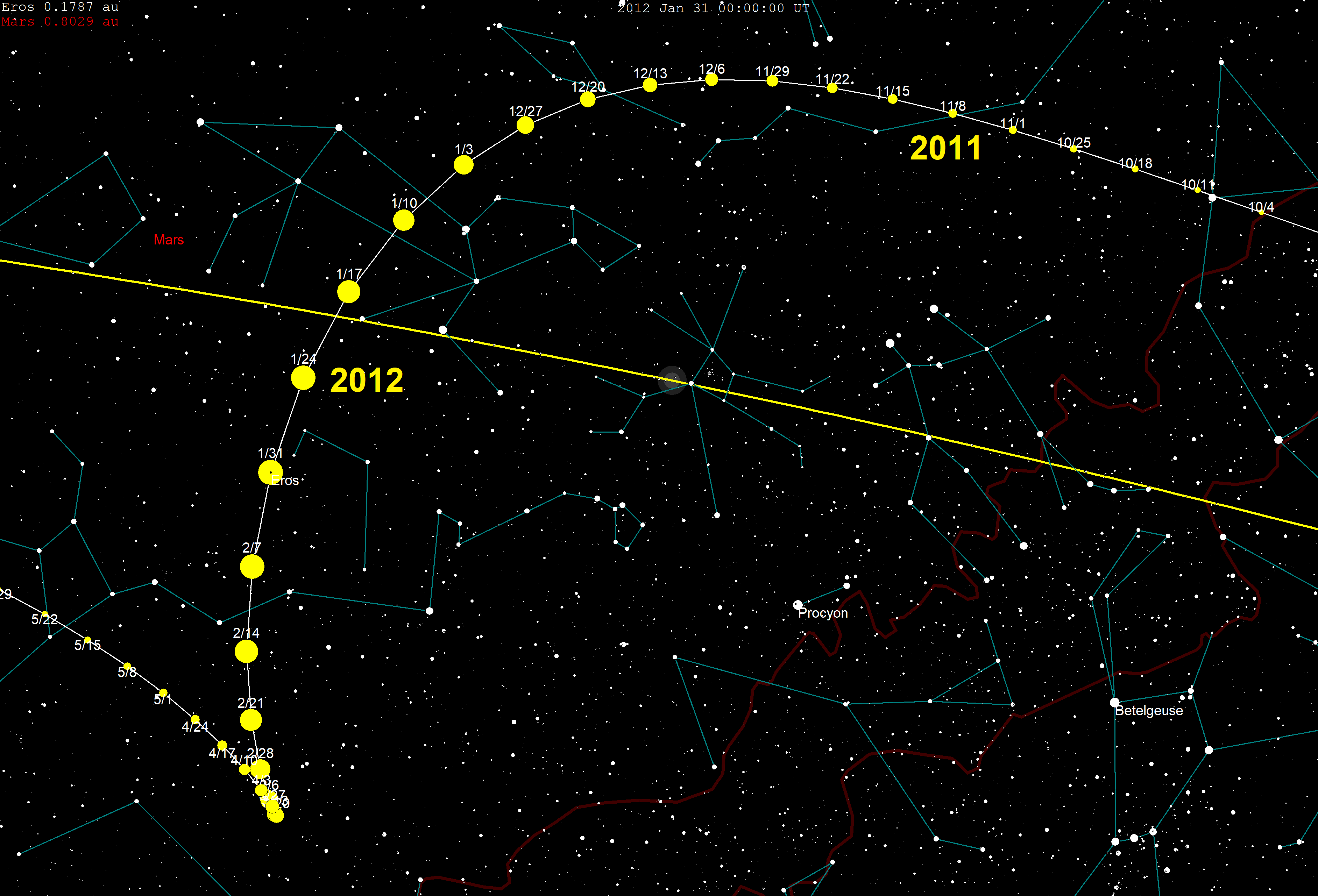 en:433 Eros sky path from earth during 2011/12 opposition, with 7 days of motion show for each yellow circle